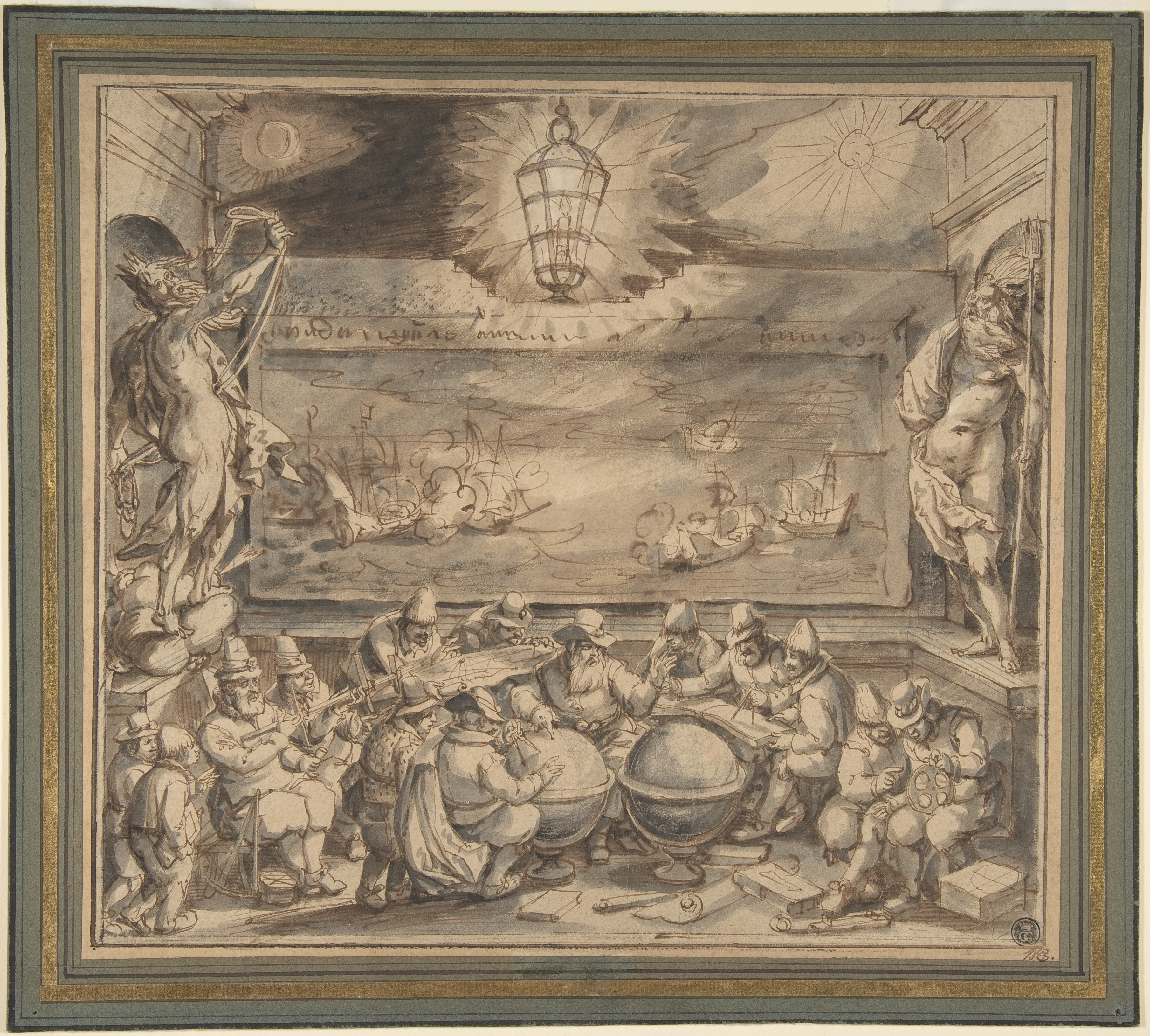 David Vinckboons (Netherlandlish, Mechelen 1576–1629 Amsterdam) Medium: Black and brown ink and wash. Dimensions: sheet: 10 1/4 x 11 1/4 in. (26 x 28.6 cm) Classification: Drawings. Credit Line: Frits and Rita Markus Fund, 2003. Accession Number: 2003.4. This artwork is not on display